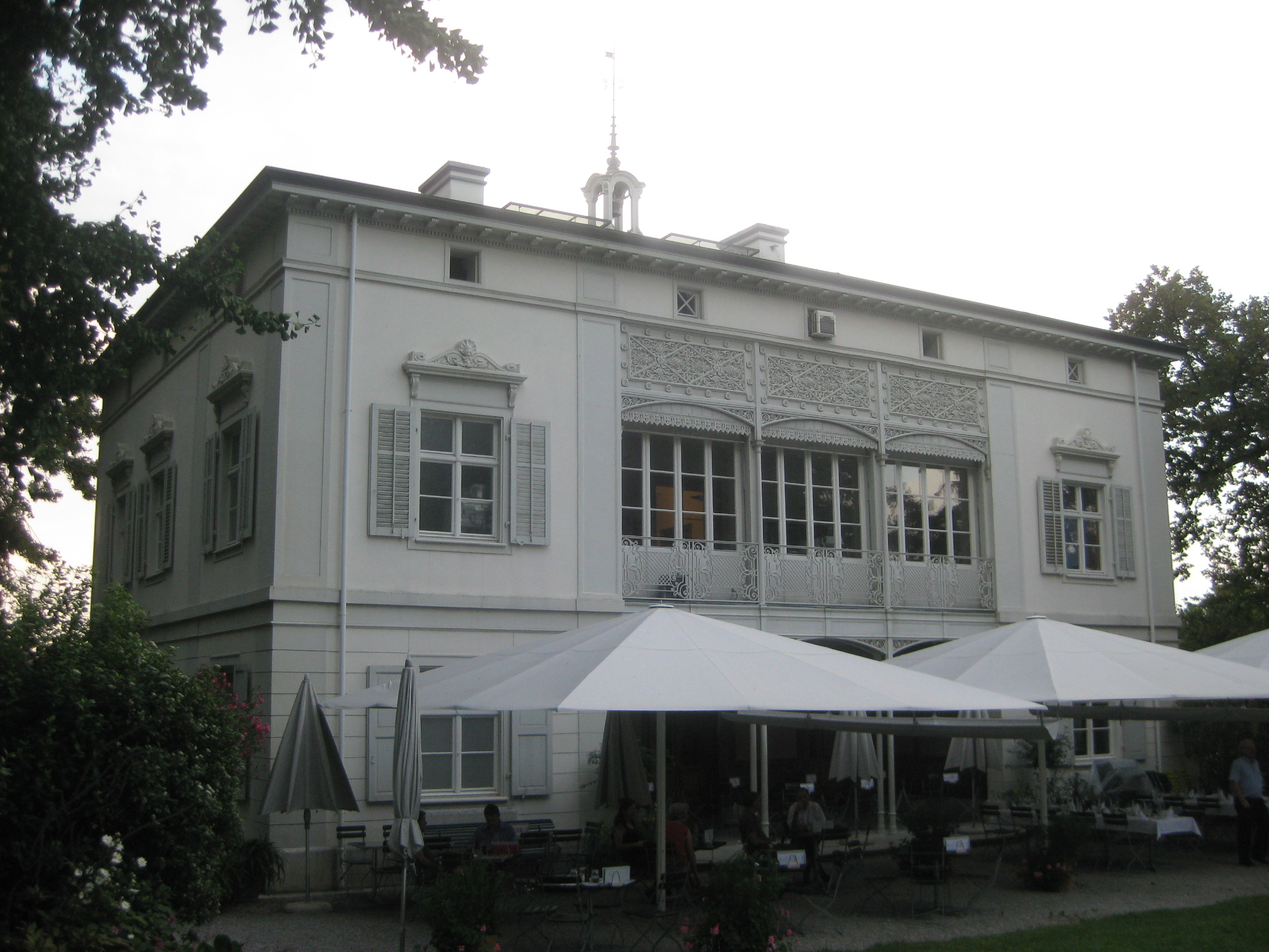 Villa Merian, Brüglingen, Münchenstein, Switzerland